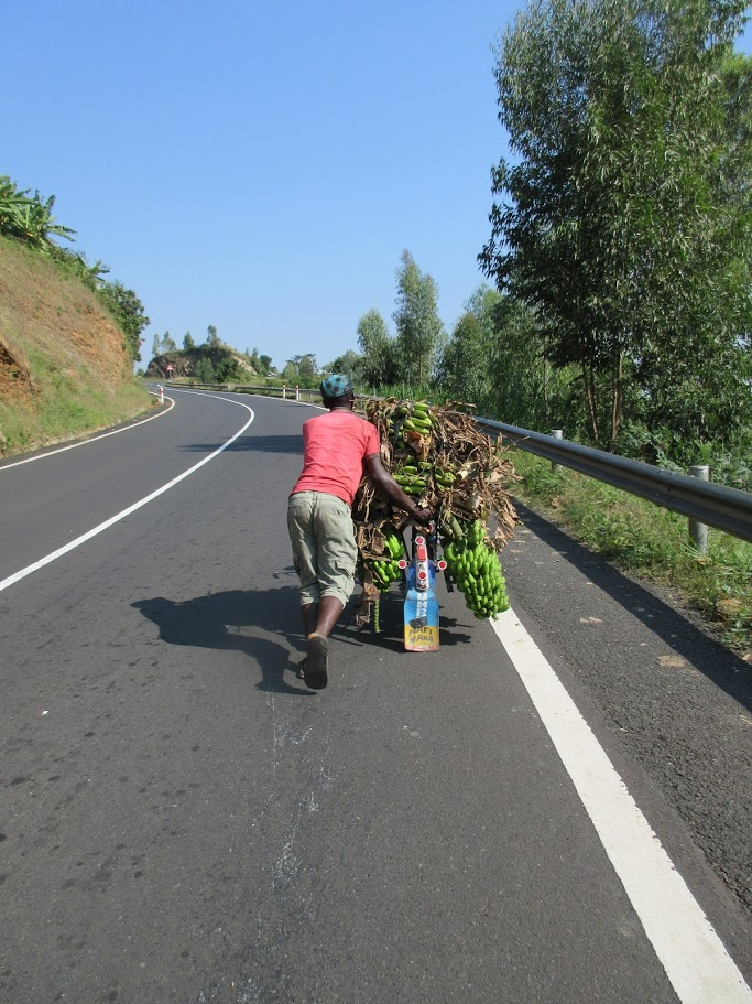 A man in Gitesi, Rwanda transporting bananas by bike